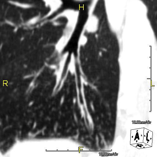 Saggital reformatted CT image showing thickened mildly dilated medium sized airways (cylindrical bronchiectasis) in a patient with Kartagener syndrome.